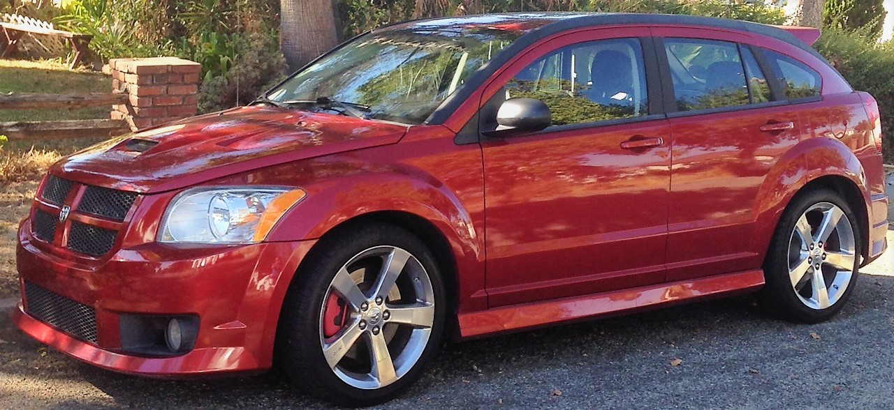 Dodge Caliber SRT-4